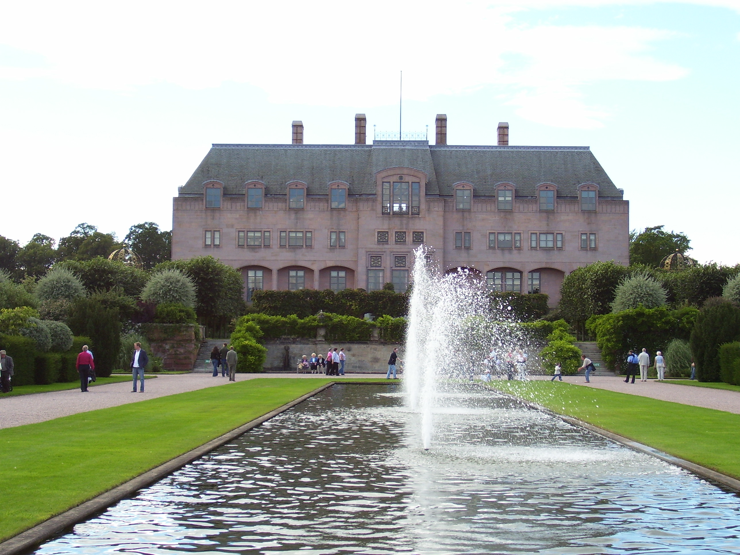 East side of Eaton Hall, Cheshire.